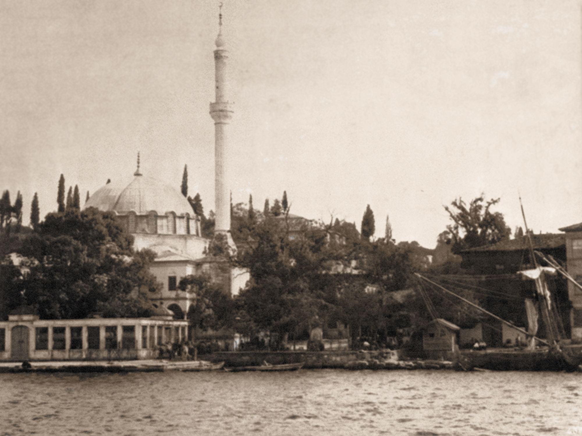 Photograph of the Beylerbeyi Mosque, from the Bosphorus, Istanbul, Ottoman Empire (present-day Turkey), taken between 1880 and 1893, by Abdullah frères (Abdullah Brothers). The mosque is also known as the Hamid-i Evvel (Abdul Hamid I) Mosque and the Beylerbeyi İskele (Beylerbeyi Dock) Mosque. Original French caption: ABDULLAH FRÈRES, Phos. Constantinople. Mosquée de Beylerbey